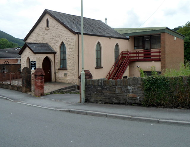 Zion Methodist Church, Aberfan. Located on Bridge Street, facing Cottrell Street. The church was built in 1891.